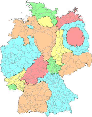 Population Cartogram of Germany, 2009 (e.g. Berlin shown huge in relation to Brandenburg, etc.)